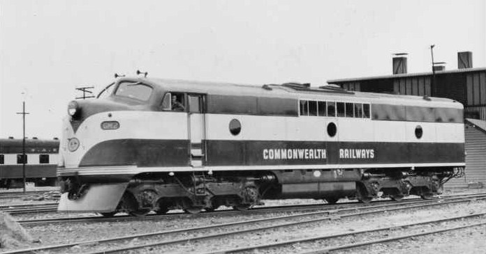 Portrait of Commonwealth Railways GM class diesel-electric locomotive, no. GM2. The locomotive was built by Clyde Engineering of Granville, New South Wales, Australia. It entered service in November 1951, and is now preserved at the National Railway Museum (Port Adelaide).This is one of a number of images in the collection of the State Library of South Australia depicting Commonwealth Railways locomotives said to have been taken in around 1951.Some of the information provided here about the image is obtained from Fluck, Ronald E; Marshall, Barry; Wilson, John (1996). Locomotives and Railcars of the Commonwealth Railways. Welland, SA: Gresley Publishing, pp. 55 and 58. ISBN 0959969039.